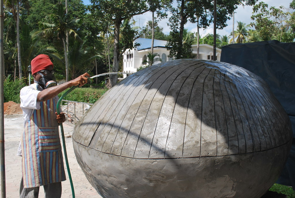 Sculptor V. satheesan at Kerala Lalitha kala academis sculptor camp at Kayamkulam, Dec 2014